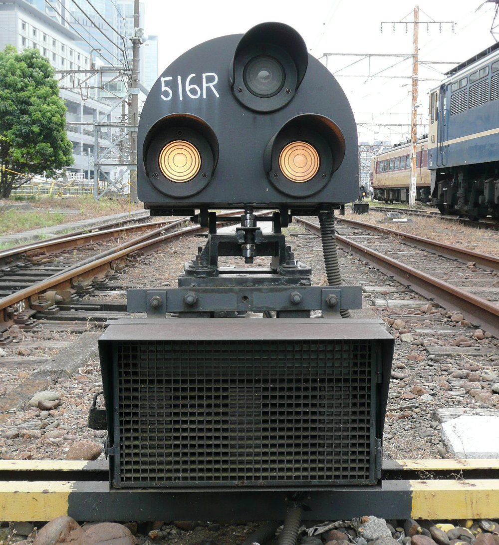 Shunt signal of Japan